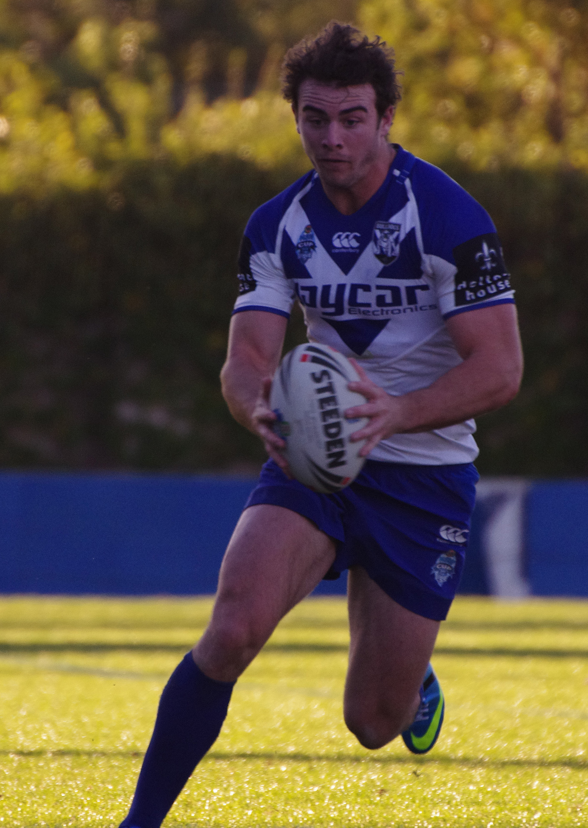 Ed Murphy